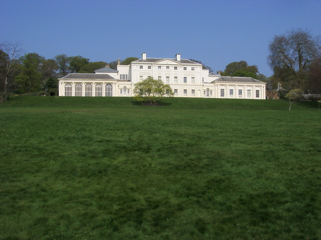 Kenwood House Looking up from the sweeping lawns to Kenwood House